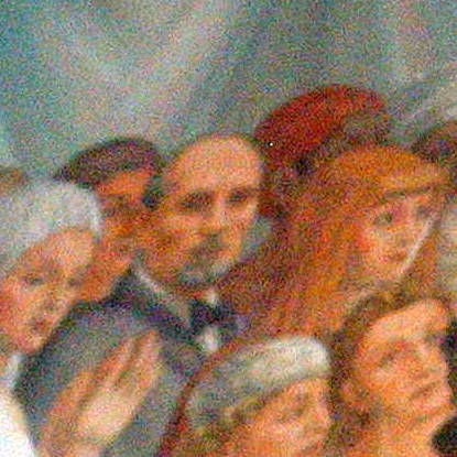 Photo 10 giugno 2008 :en:Antonio Barluzzi|Antonio Barluzzi in a fresco at the Church of the Visitation in the Holy Land -crop